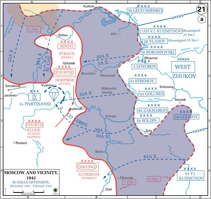 Battle of Rzhev 1941